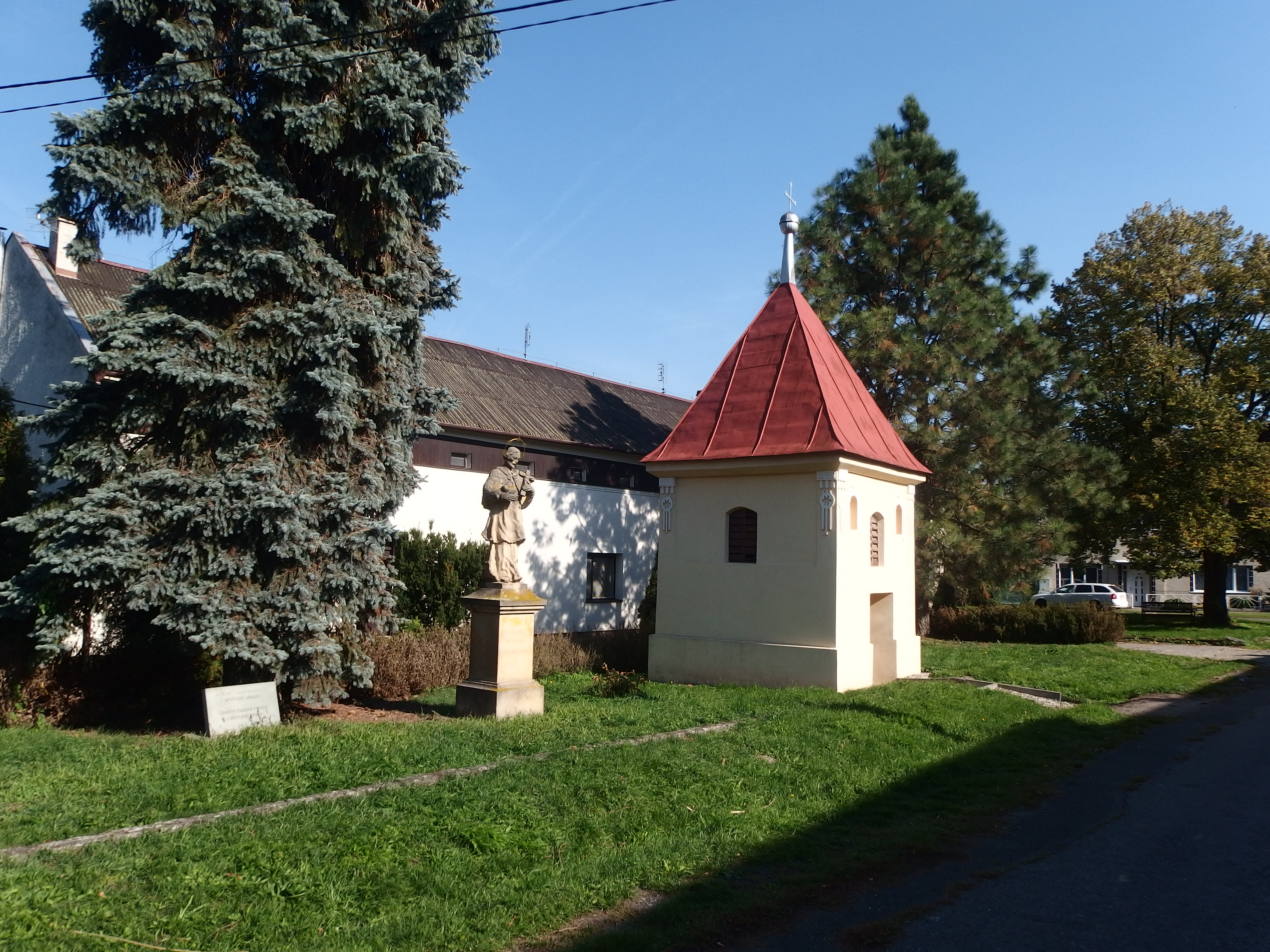 Dub nad Moravou, Olomouc District, Czech Republic, part Tučapy.